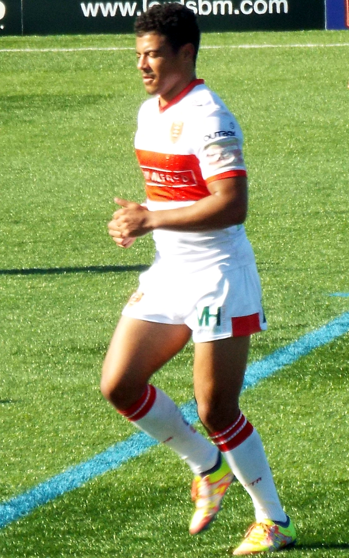 Kieran Dixon